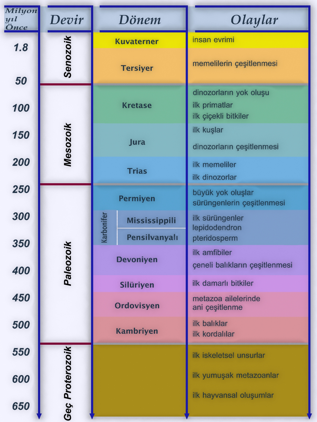 Evolution timeline